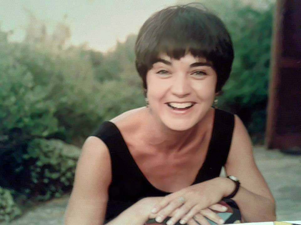 Lidia Mannuzzu (1958 - 2016), italian biologist and physiologist. Photographed by her sister during the holiday at Stintino, 3 november 2012